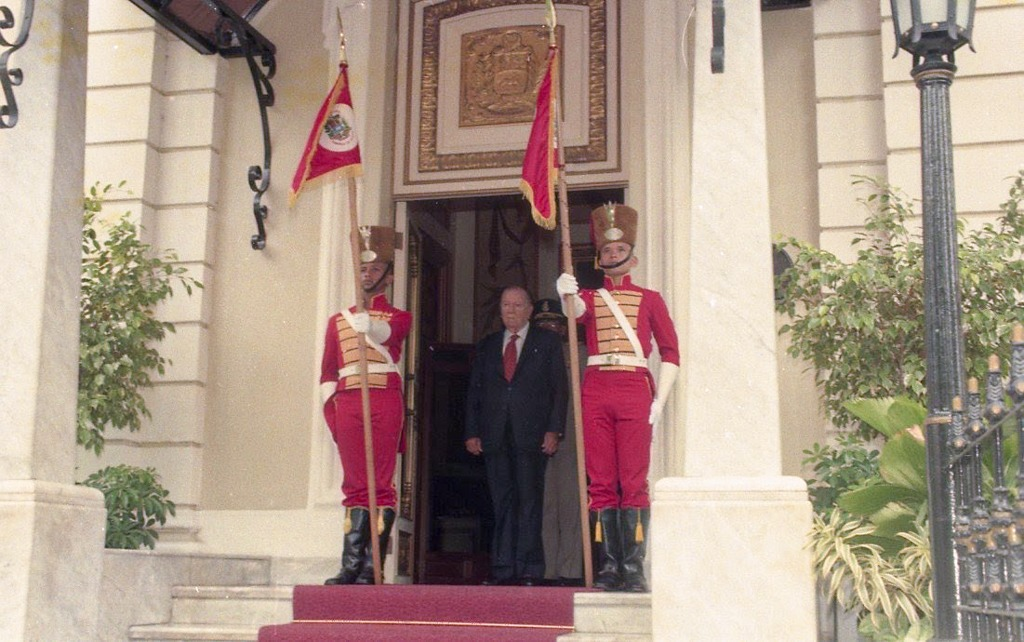 Presidente Rafael Caldera en la Puerta Dorada del Palacio de Miraflores.